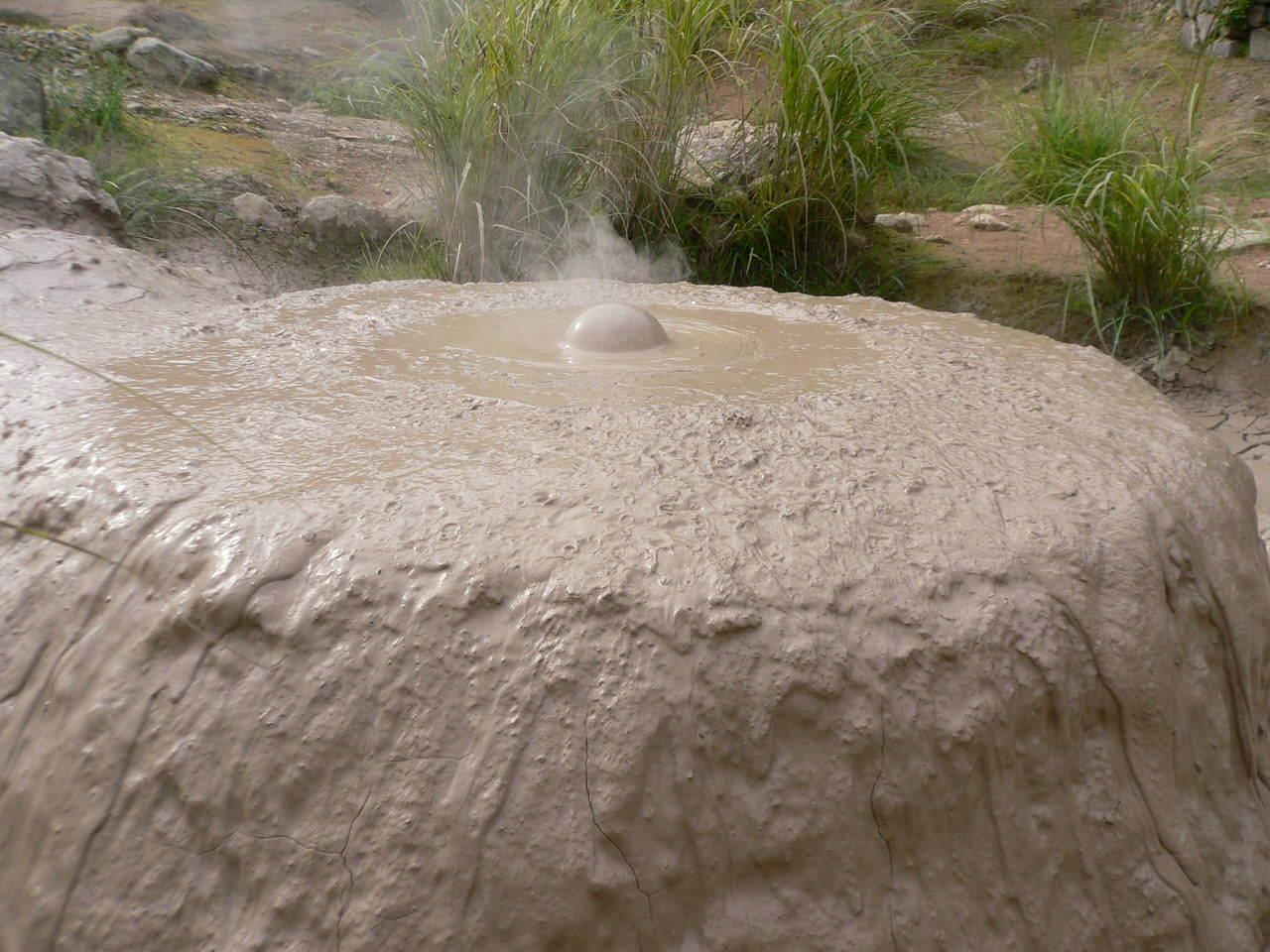 Bouzu jigoku (Beppu, Oita in Japan)